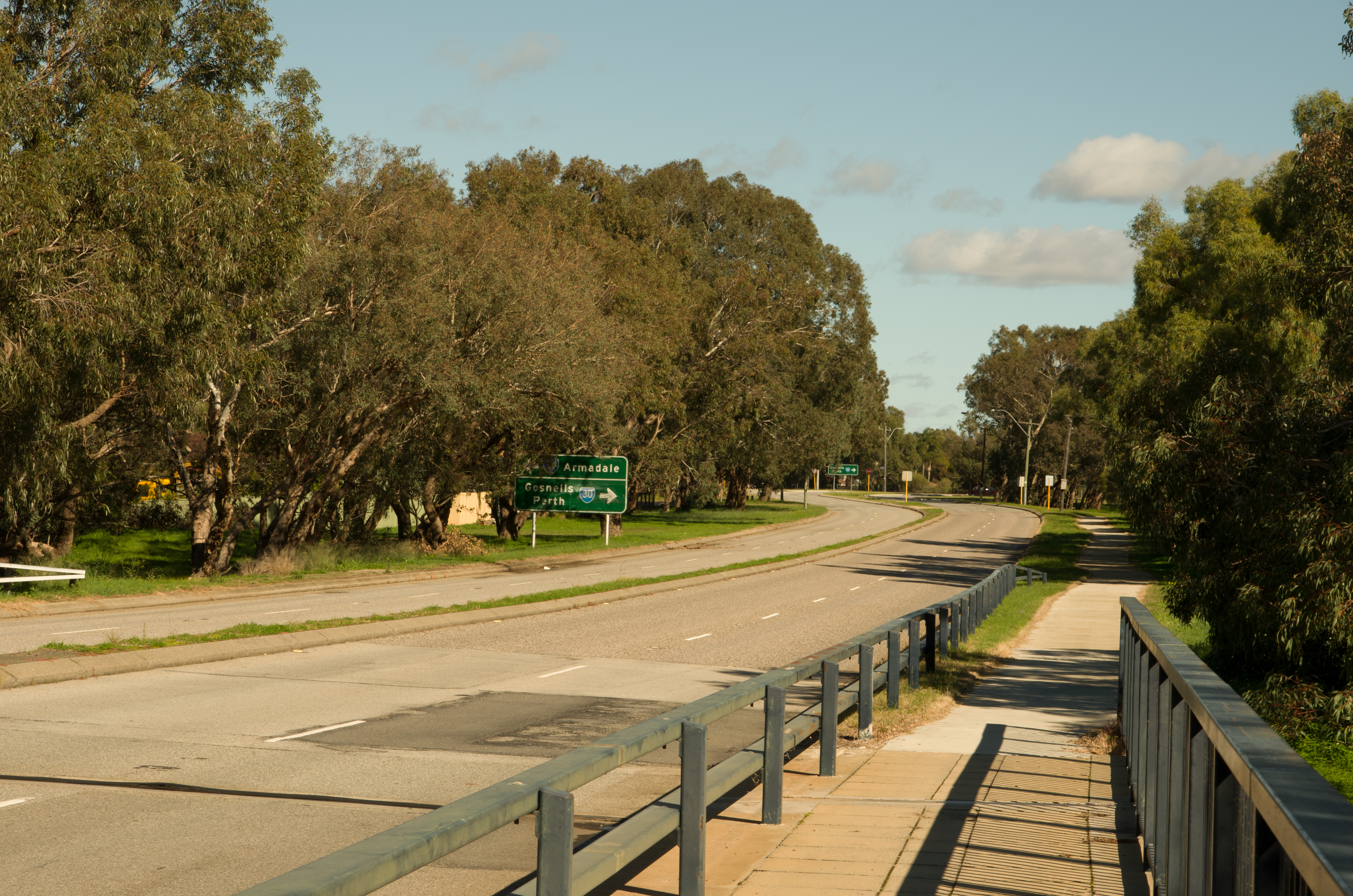 original section of Tonkin Hwy